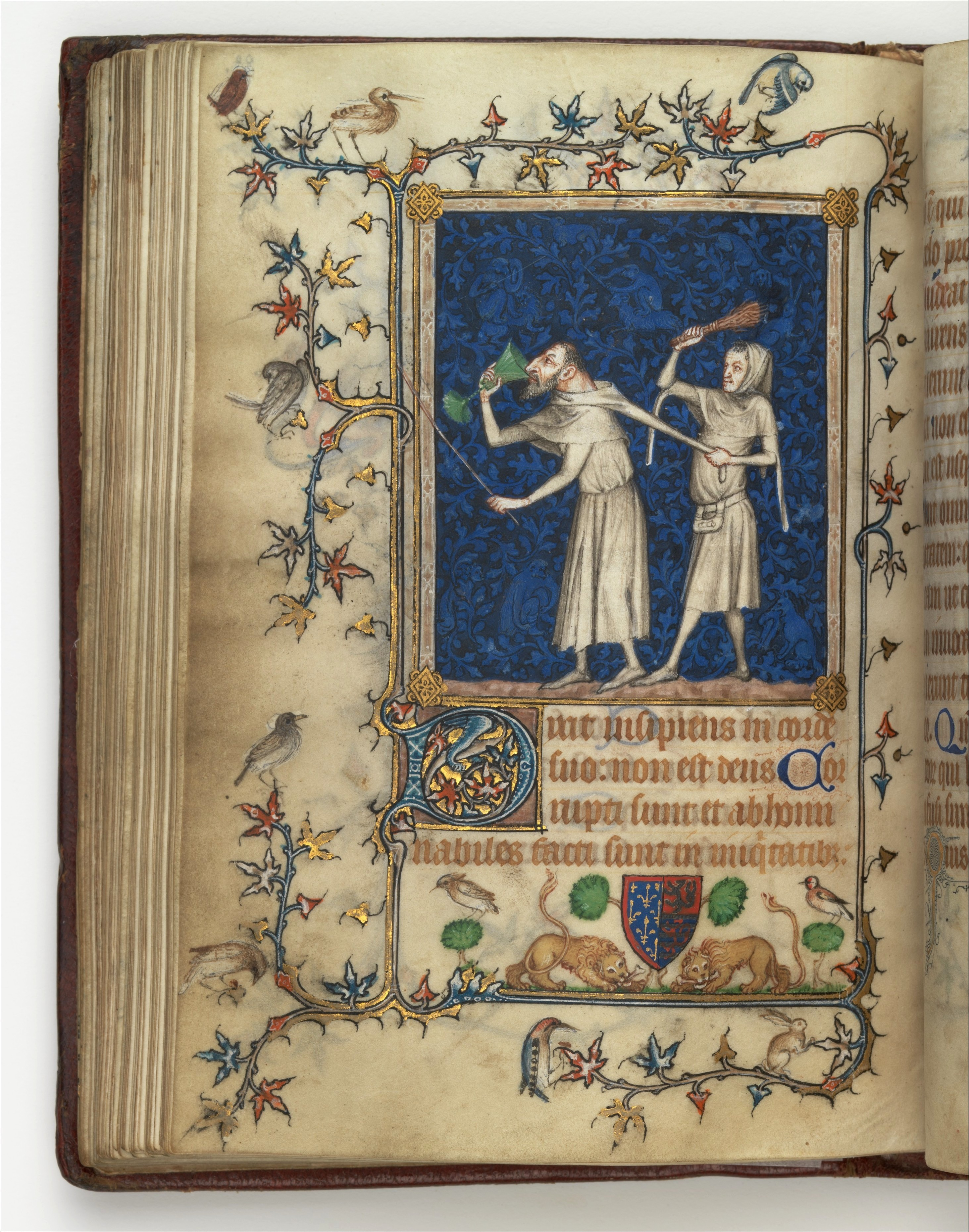 Jean Le Noir. Two Fools. Miniature from Psalter of Bonne of Luxemburg 1348-49 Metropolitan Museum, N-Y